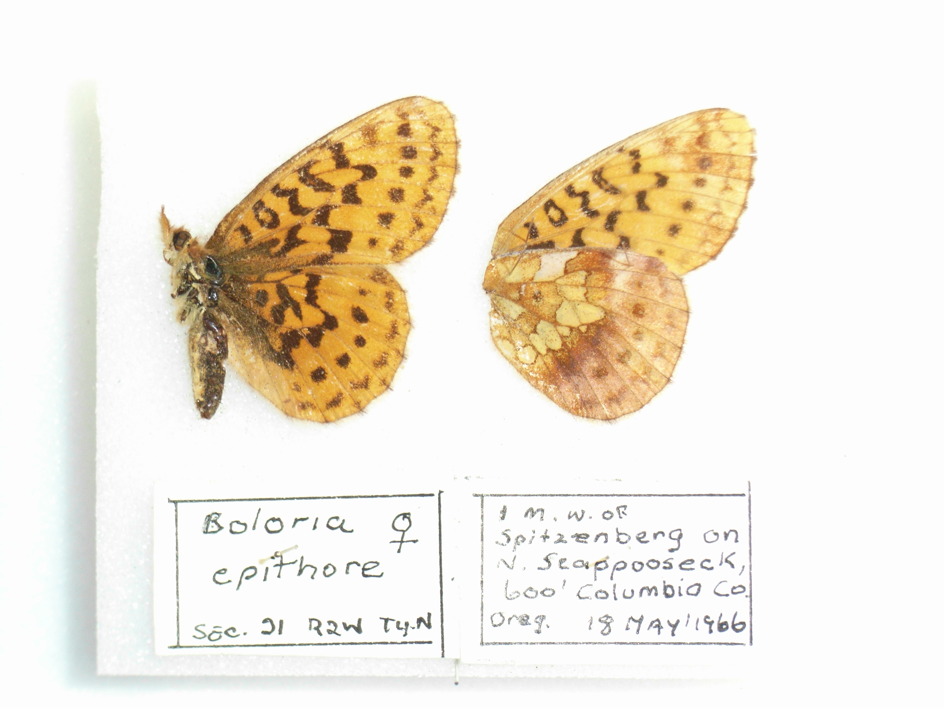 Boloria epithore (W. H. Edwards, 1864)